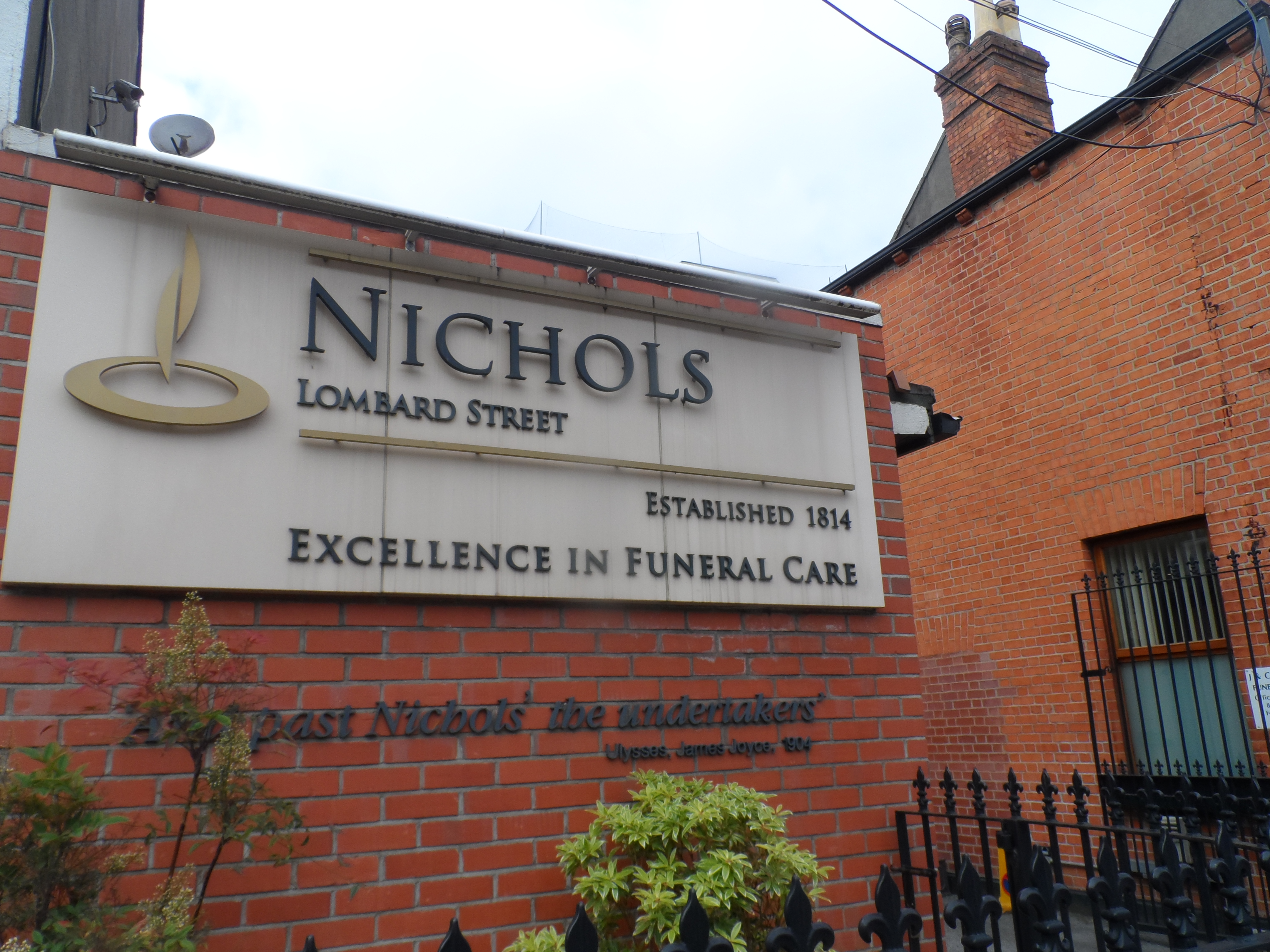 Ulysses undertaker